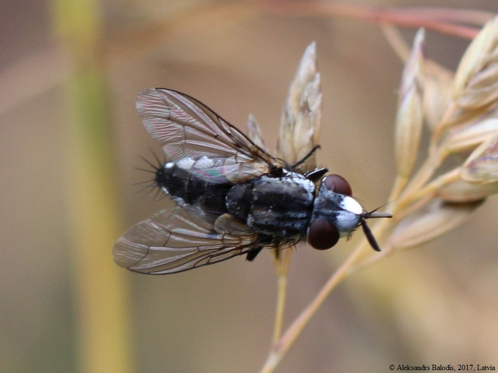 Metopia staegeri